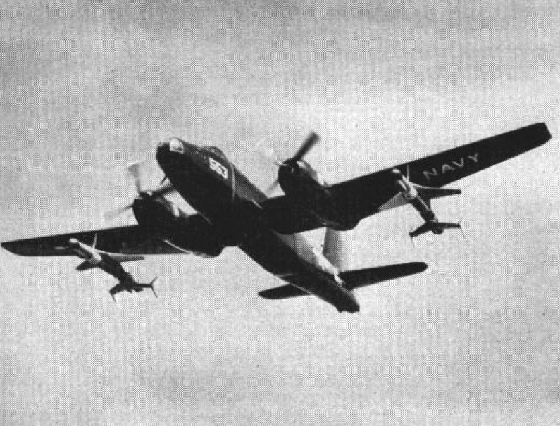 A U.S. Navy Lockheed P2V-6M Neptune (BuNo 131553) assigned to the Naval Air Ordnance Test Station Chincoteague, Virginia (USA), in flight with two AUM-N-2 Petrel missiles.